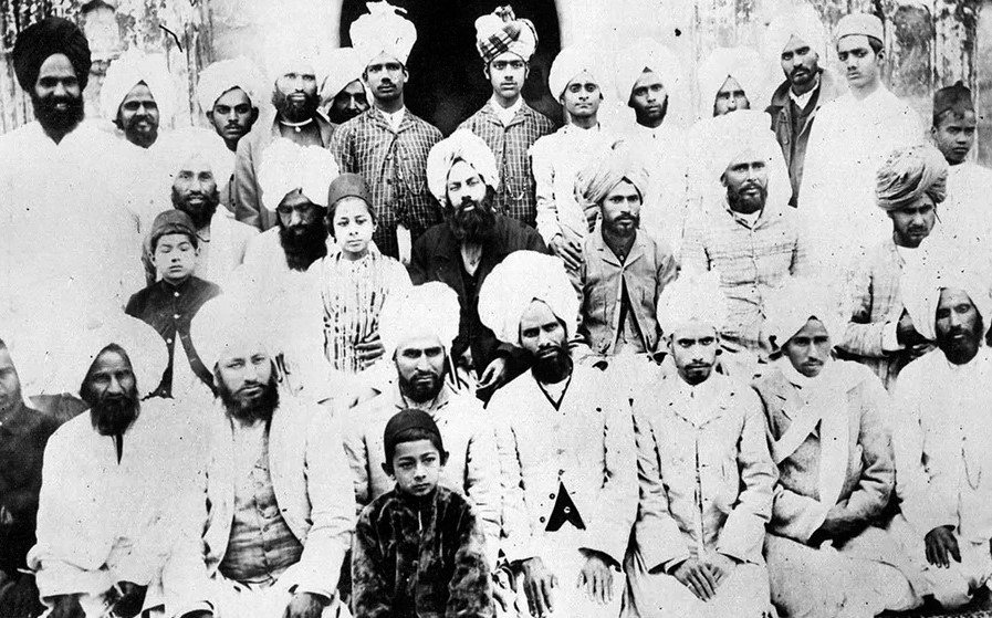 Photo of Mirza Ghulam Ahmad (as) of Qadian, India and some of his companions.